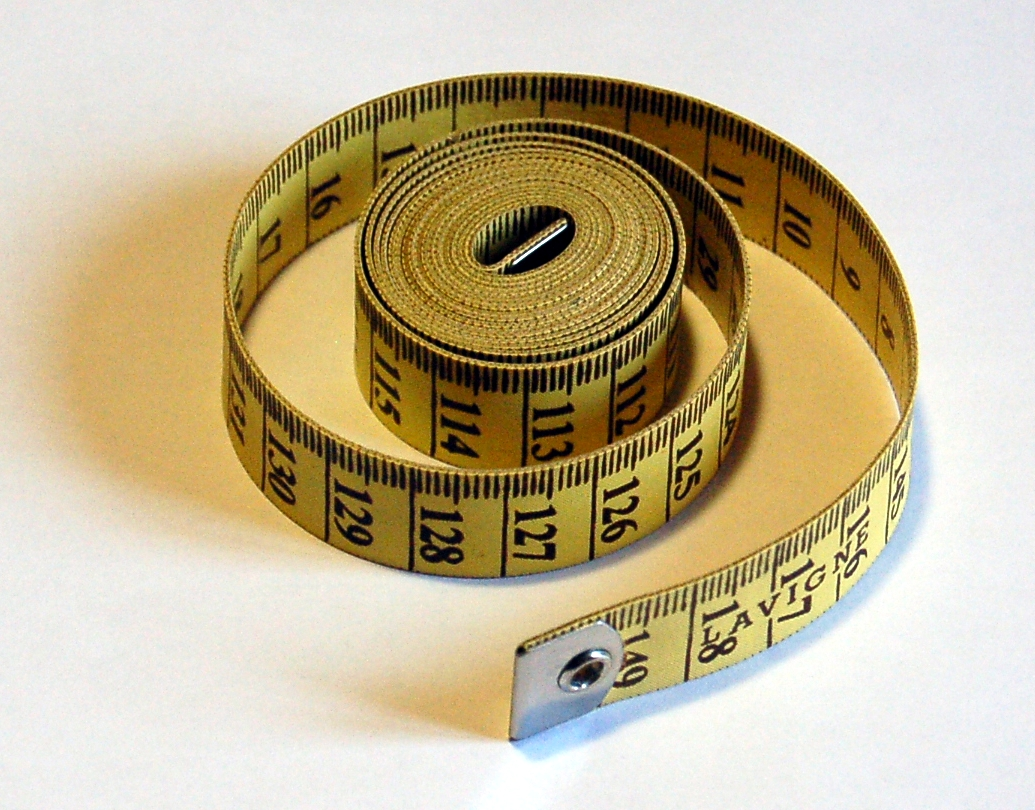 tape measure